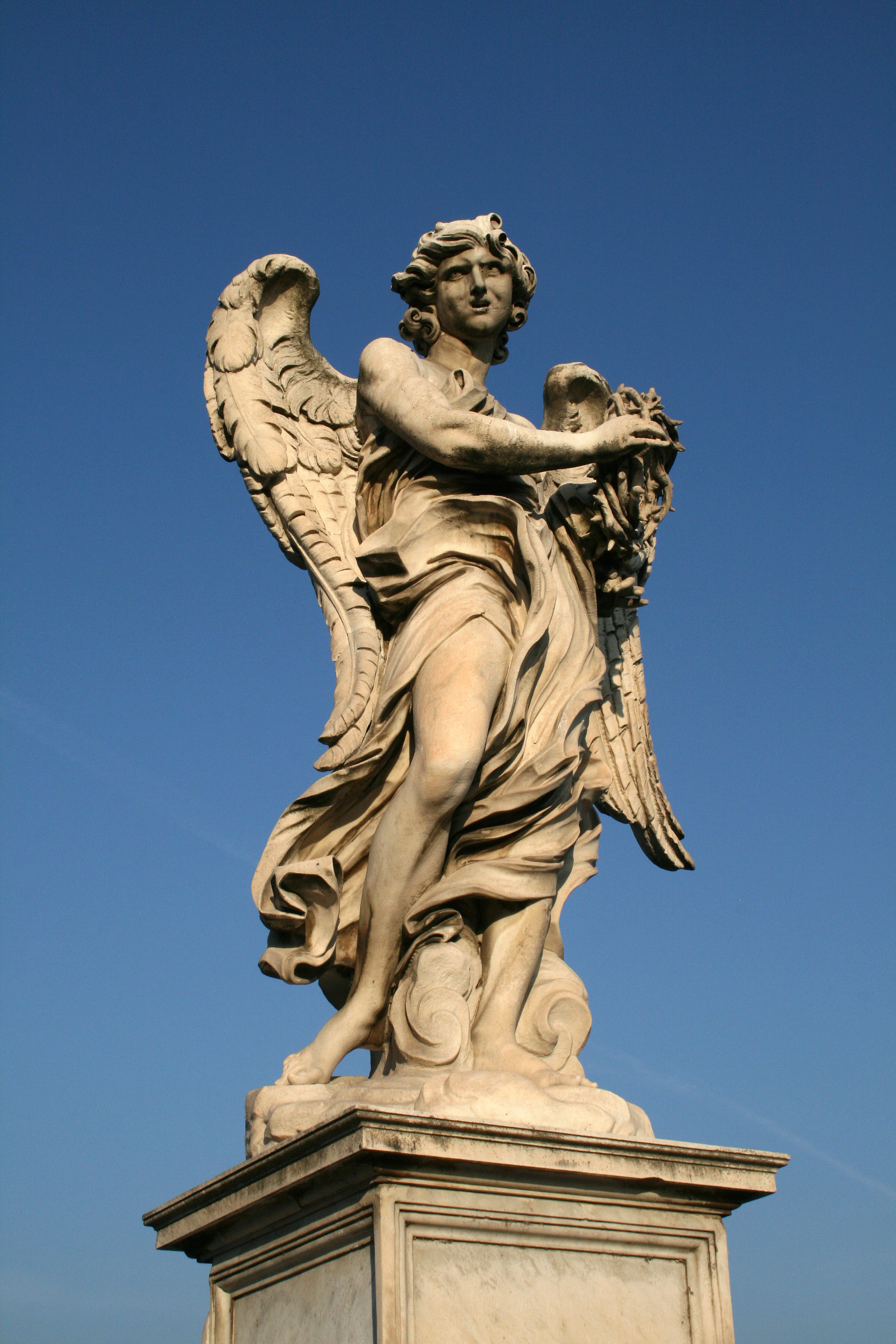 Angel bearing the crown of thorns, copy of Bernini by Paolo Naldini, with the inscription “In aerumna mea dum configitur spina” ("in my affliction, whilst the thorn is fastened upon me", Psalms 31:4), western side of the Ponte Sant'Angelo in Rome, Italy.